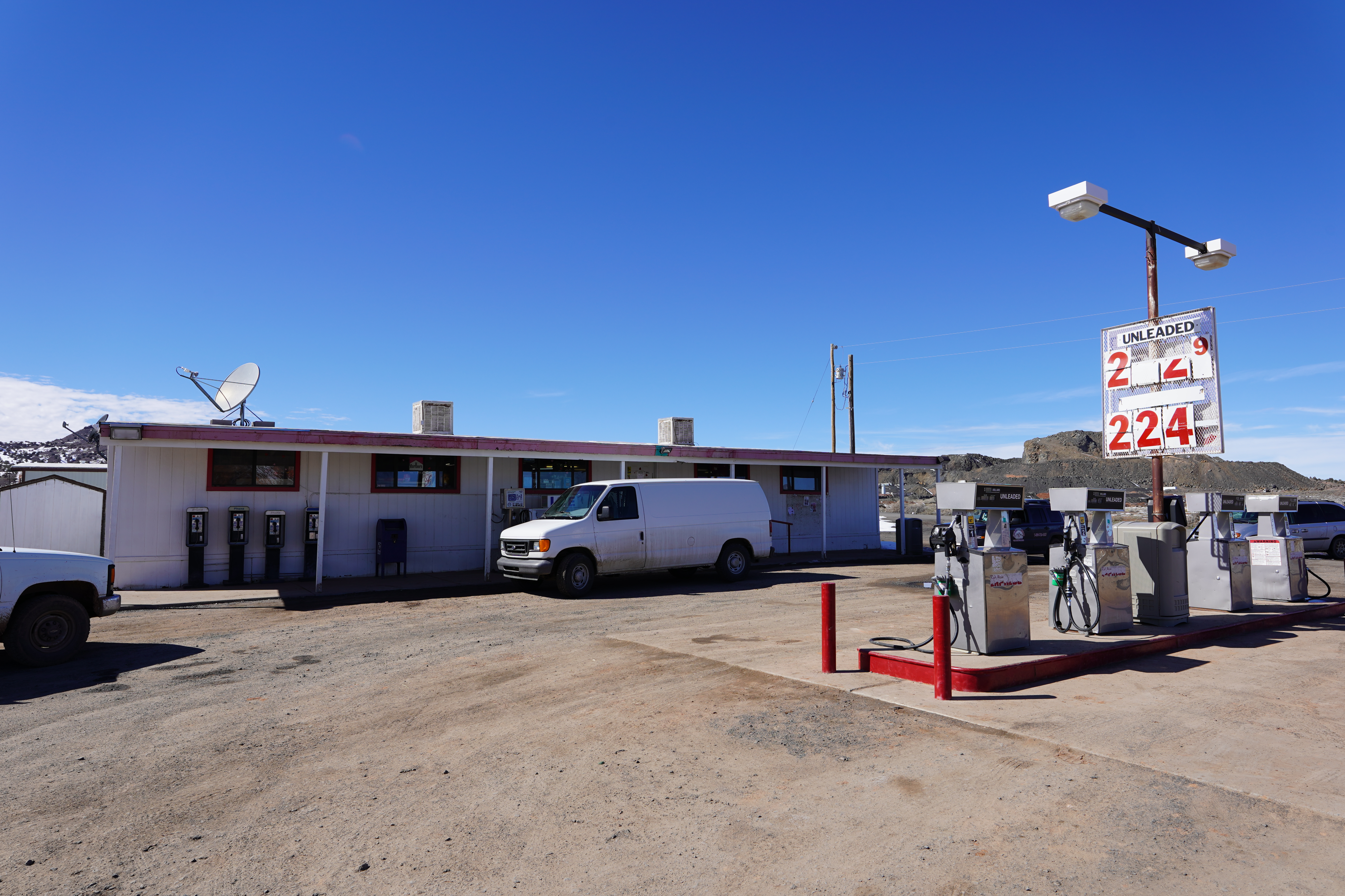 The photograph is of the Indian Wells trading post located approximately 1 kilometers west of Arizona State Route 77. Photograph was taken on 2019-02-27T20:49:13Z.